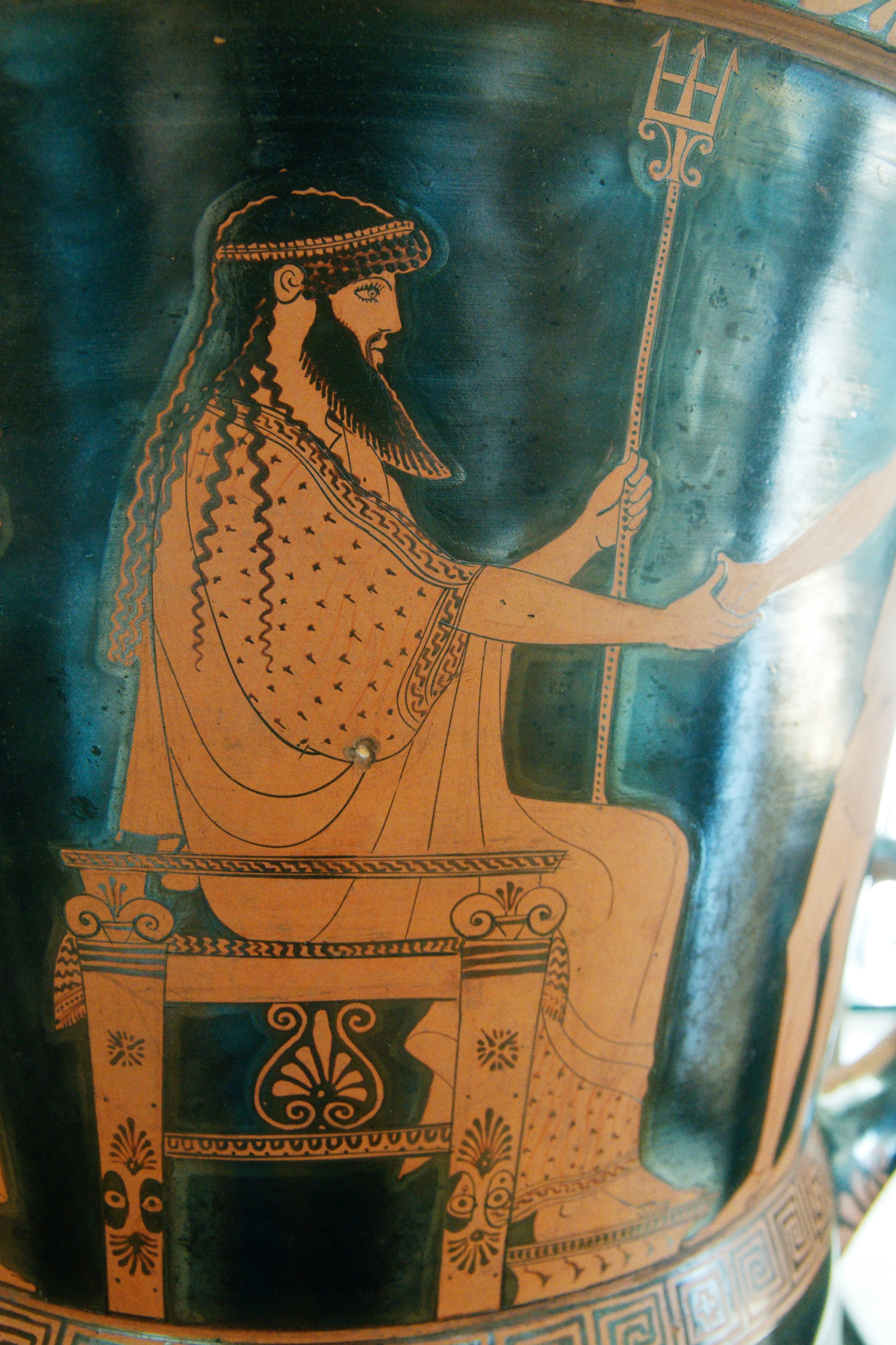 Poseidon greeting Theseus (on the right). Detail, side A from an Attic red-figured calyx-krater, first half of the 5th century BC. From Agrigento.